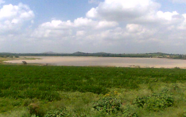 Dronachalam (Dhone), Kurnool district, Andhra Pradesh